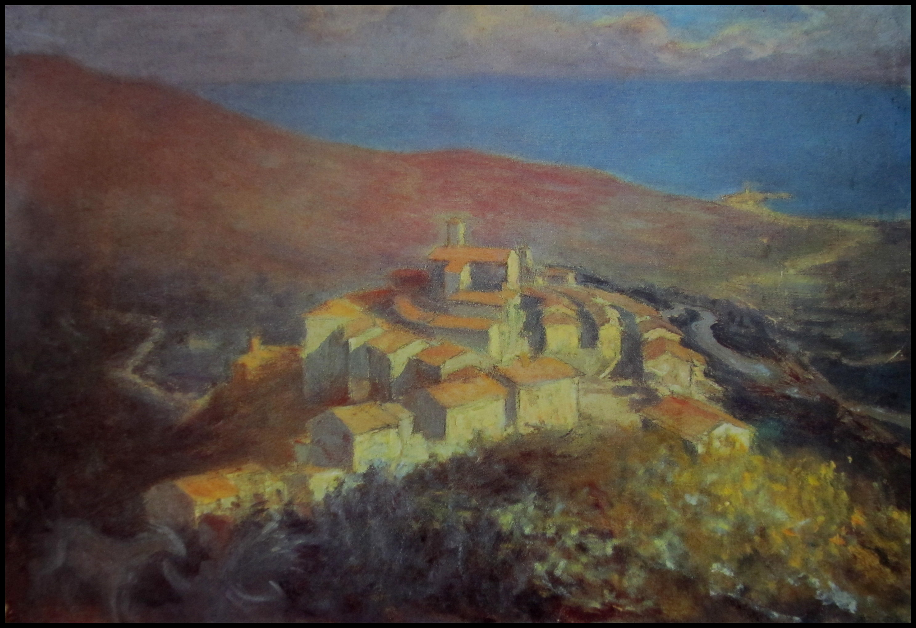 elba island